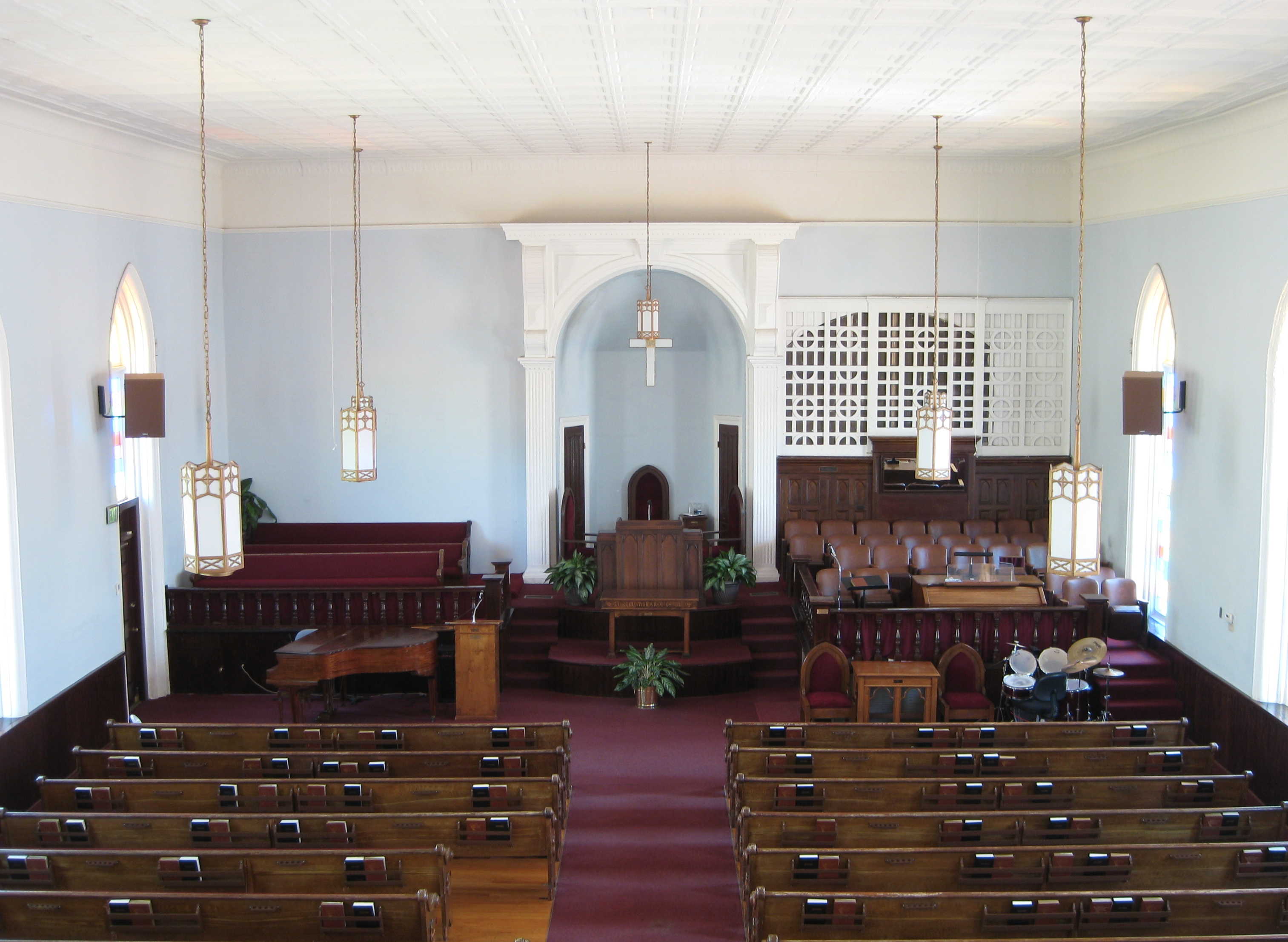 Interior of Dexter Avenue Baptist Church